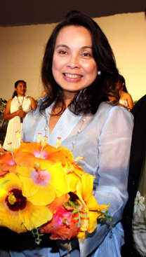 Senator Loren B. Legarda with (left) Dr. Ma. Victoria Espaldon, Dean School of Environmental Science and Management and (right) Dr. Pablito Magdalita awarded the Hibiscus Rosa-Sinesis named Loren Legarda in her honor because of her dedication in serving the public and her valuable efforts in promoting environmental protection held in Umali Auditorium in University of the Philippines Los Banos